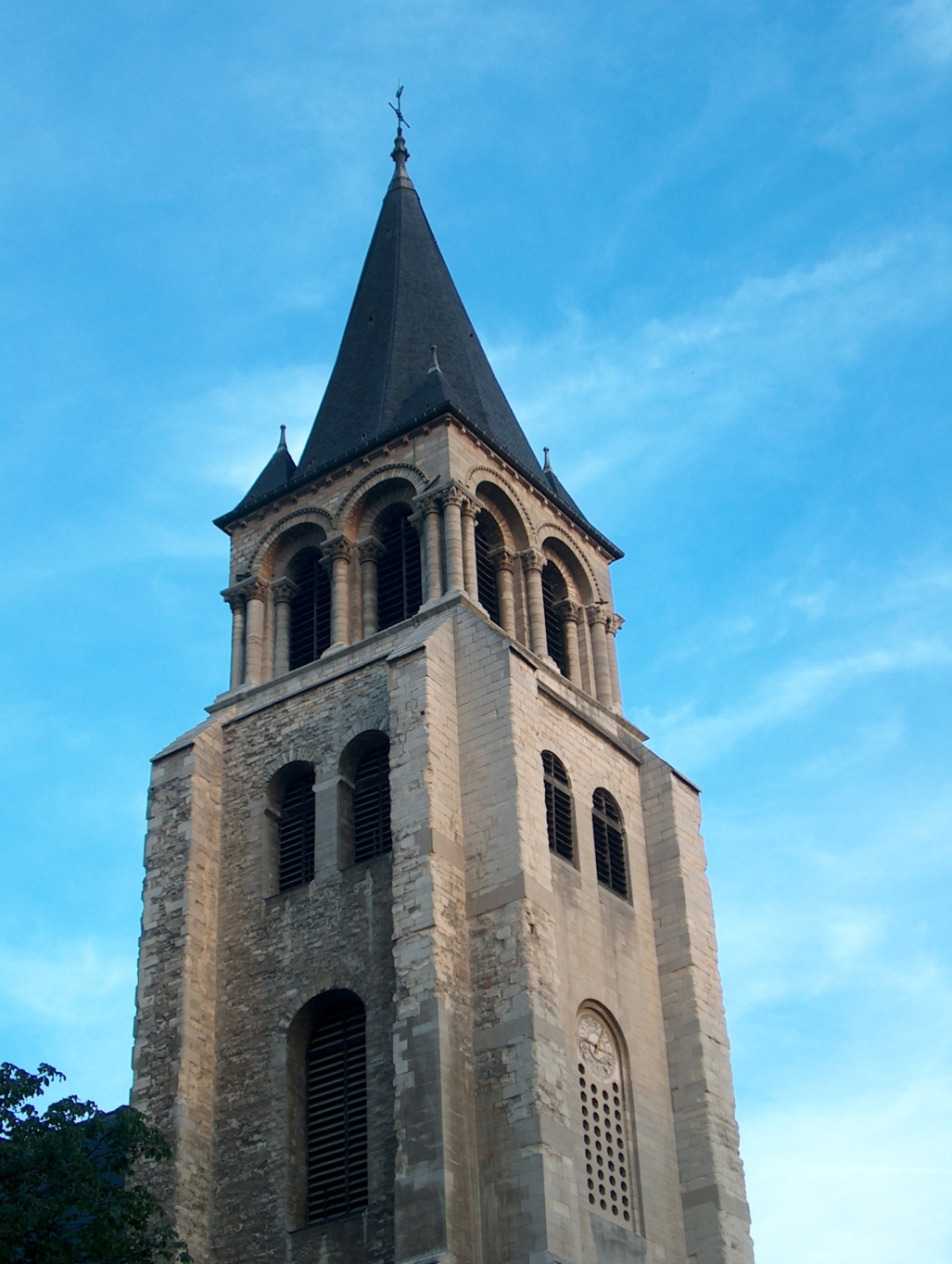 A shot of the Abbey of Saint Germain des Pres taken in 2006.